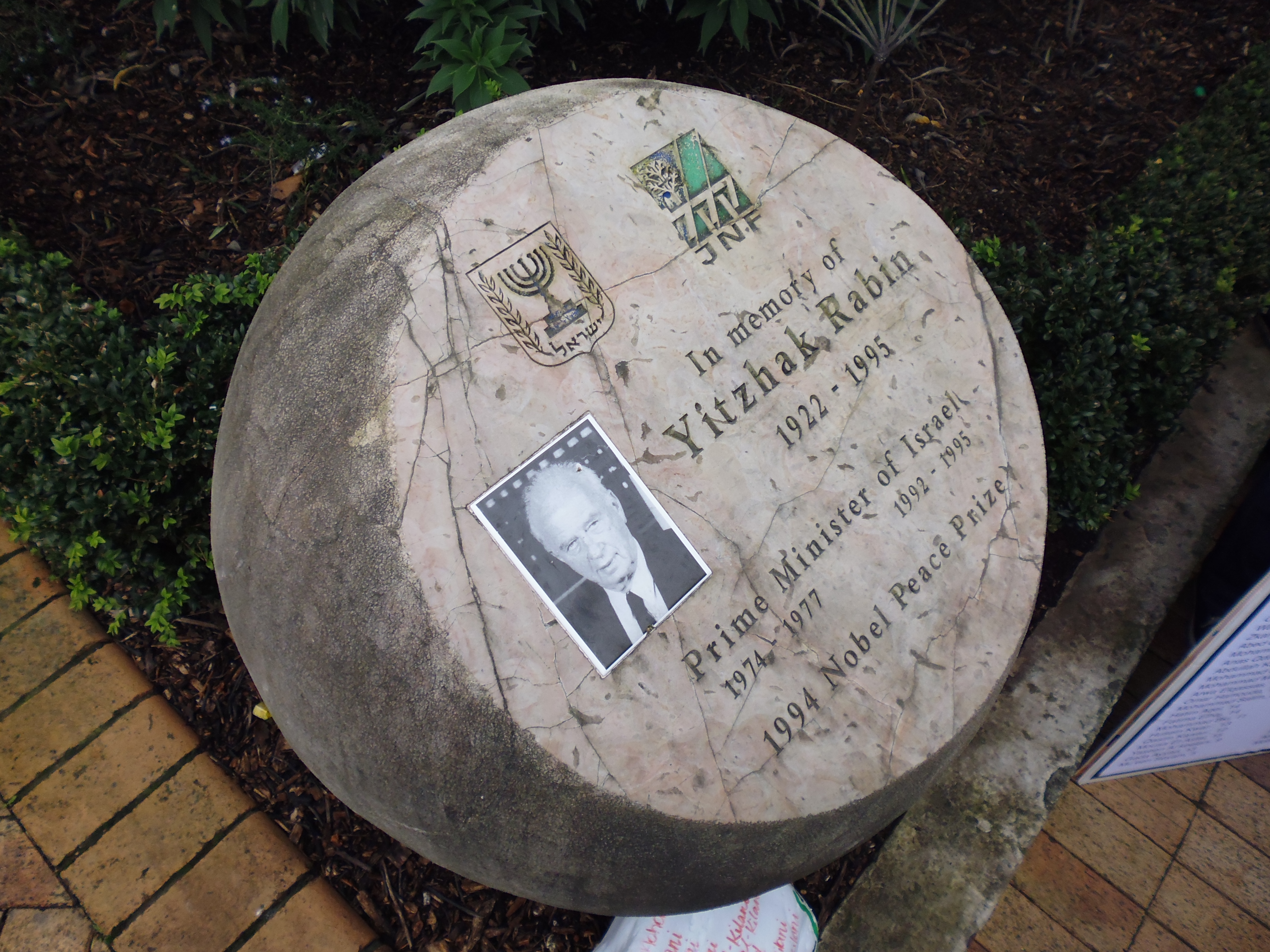 A memorial to Yitzhak Rabin in Wellington, New Zealand. The memorial was erected in honour of Rabin's receiving the Nobel Peace Prize.